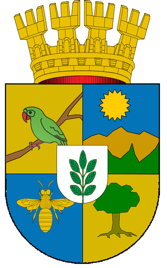 Coat of arms of Requinoa commune, in Chile.